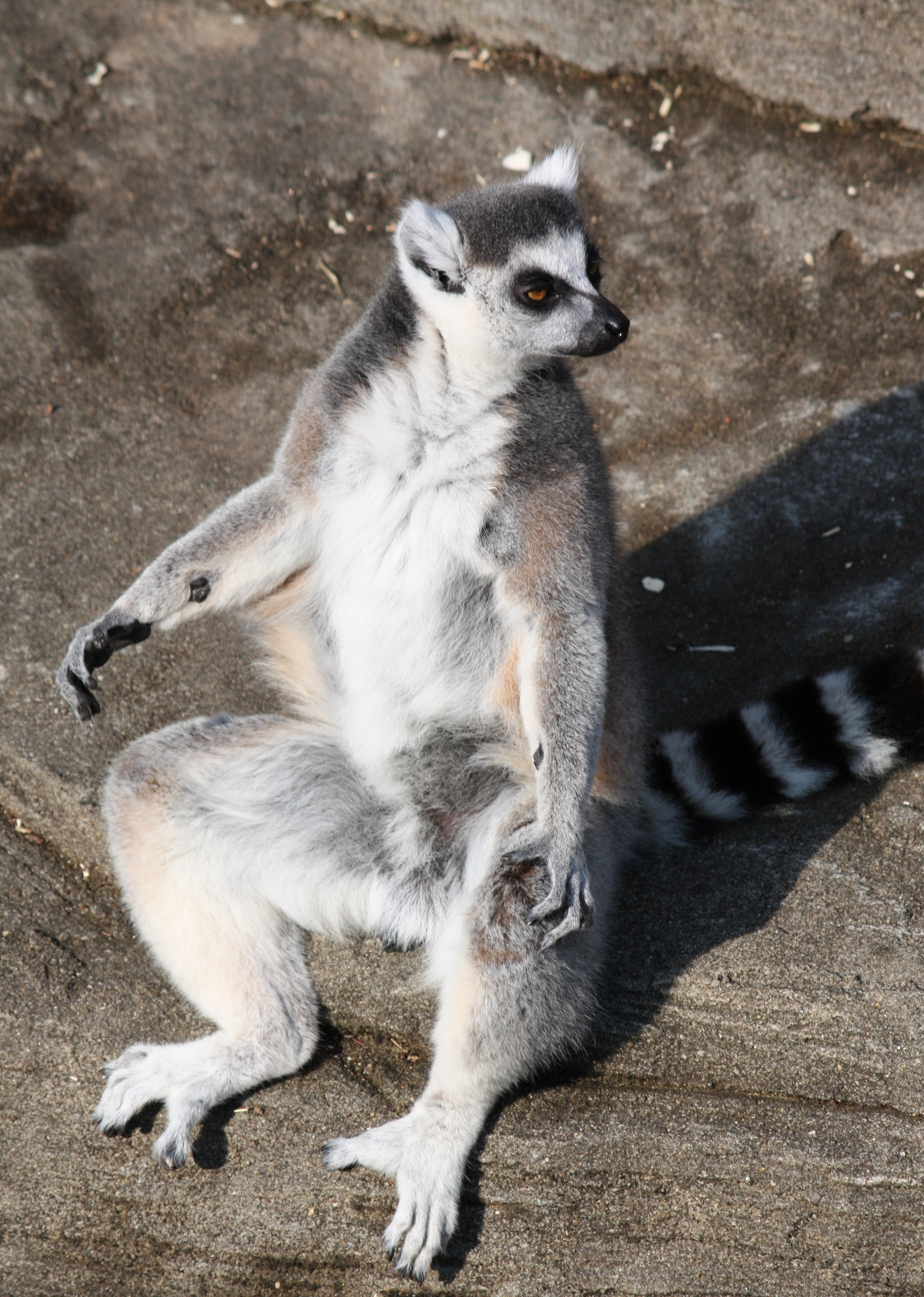 Ringtailed Lemur (Lemur catta) at the Louisville Zoo